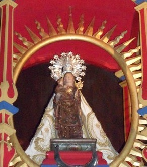 Imagen de la Virgen de Guadalupe, patrona de la isla de La Gomera.